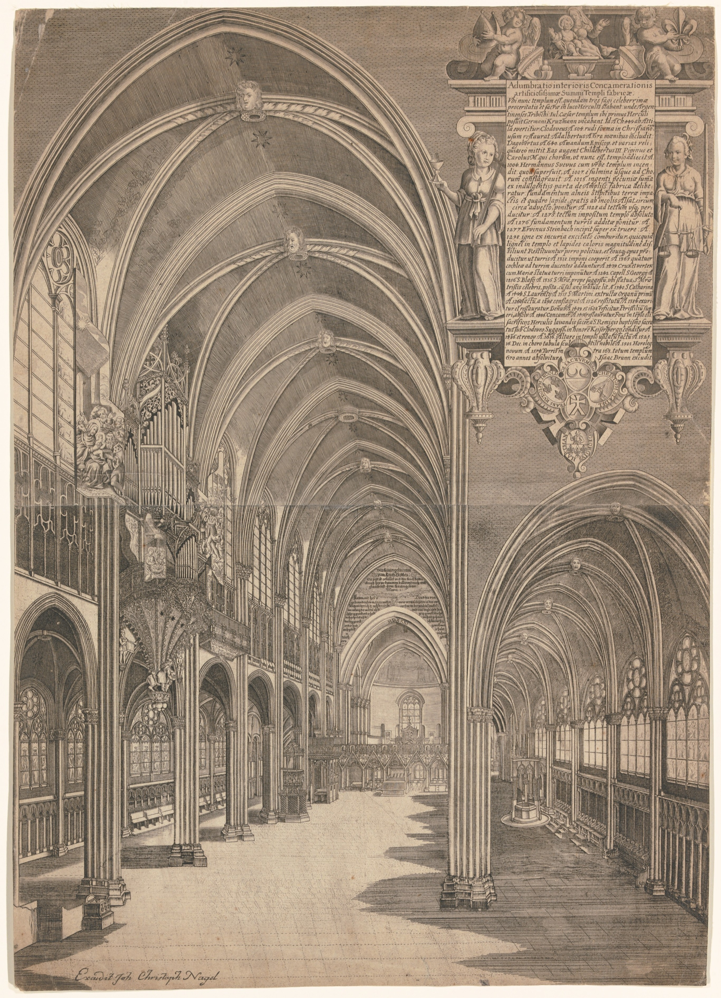 Engraving depicting the inside of Strasbourg Cathedral in 1617. Published by Isaak Brun. Sheet measures 20 3/16 x 14 1/4 in. (51.2 x 36.2 cm)